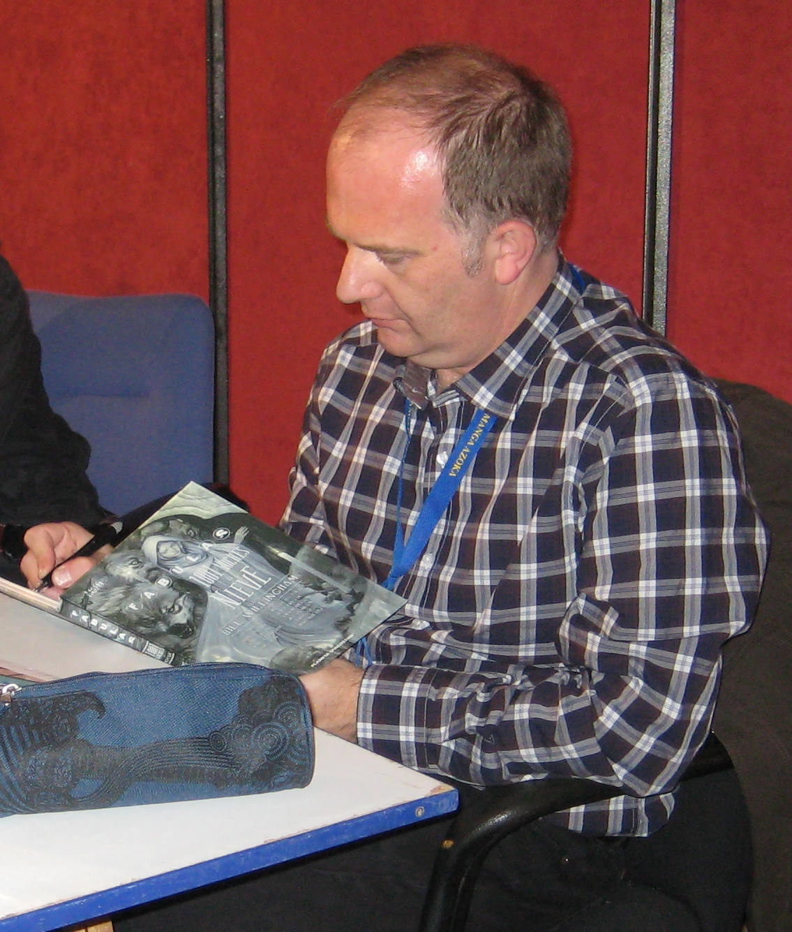 English comic creator Mark Buckingham signing an issue of Fábulas (translation to Spanish of Fables), in Getxo Comic Con, 2009.